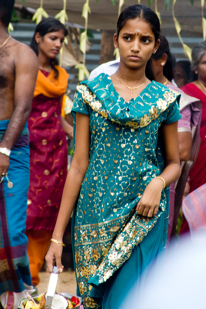 Tamil Girl